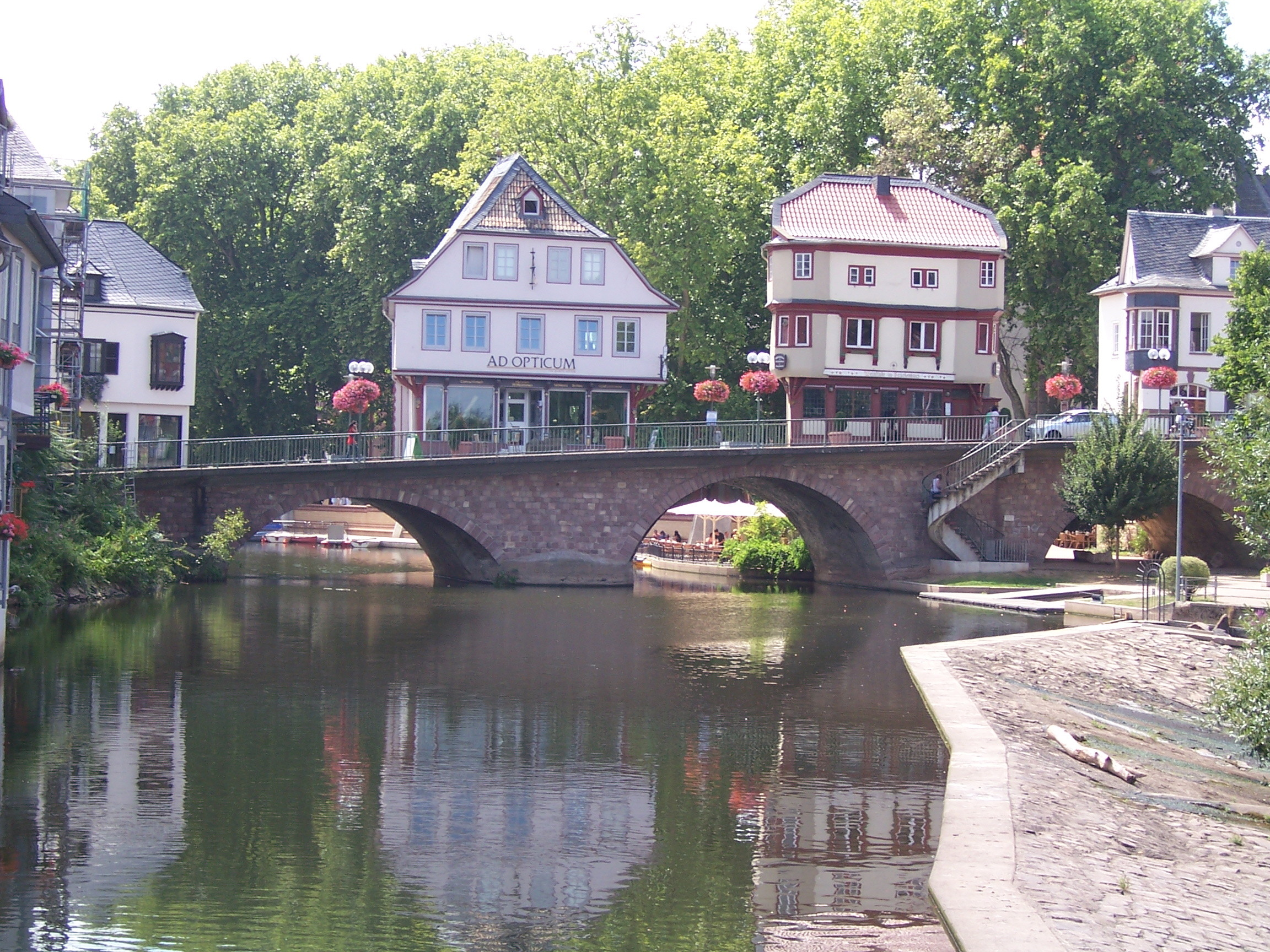 Bridge houses in Bad Kreuznach, Germany